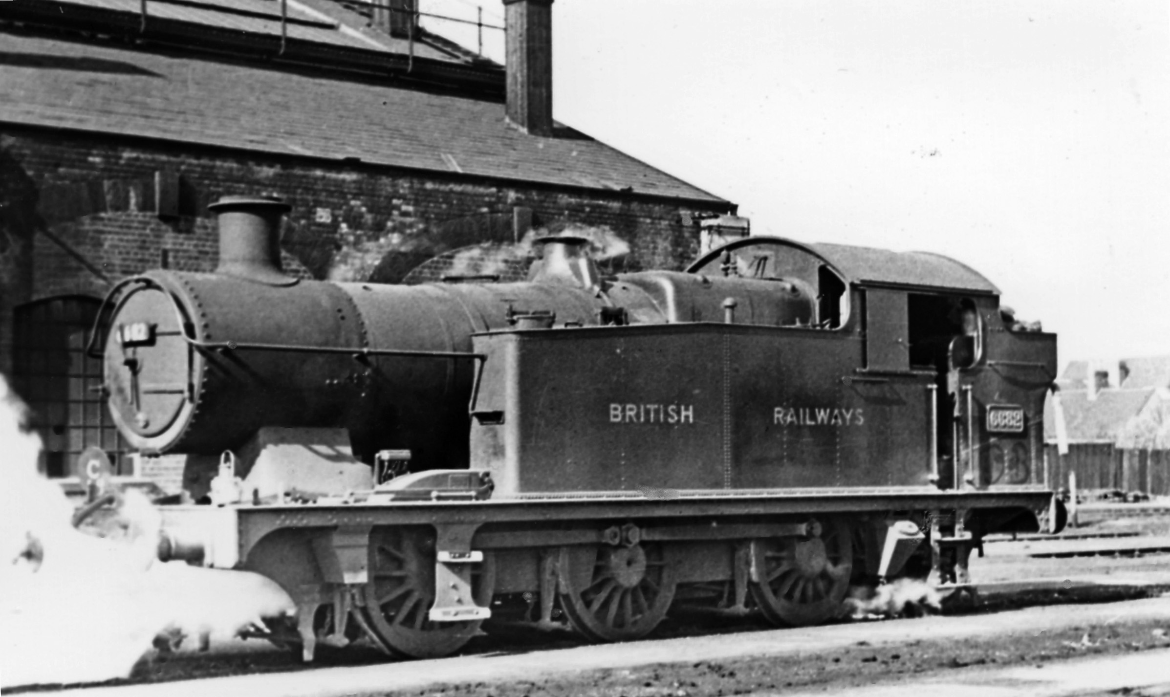 GW 0-6-2T at Cardiff Cathays Locomotive Depot. No. 6682 is one of the very numerous Collett GWR '5600' 0-6-2Ts that moved much of the passenger and freight traffic in the South Wales Valleys. Cathays together with Radyr were the principal Locomotive Depots (coded 88A in BR/WR) were the main Depots of the Cardiff Valleys Division, having a combined compliment in 1950 of 82 locomotives:- 2 2-8-2T, 62 0-6-2T, 15 0-6-0T and 3 0-4-2T.